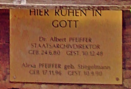 Grabinschrift Archivrat Albert Pfeiffer (1880-1948), Friedhof Gleisweiler